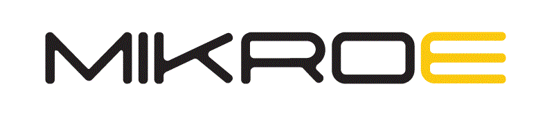 Mikoroelektronika's new logo, since 2018